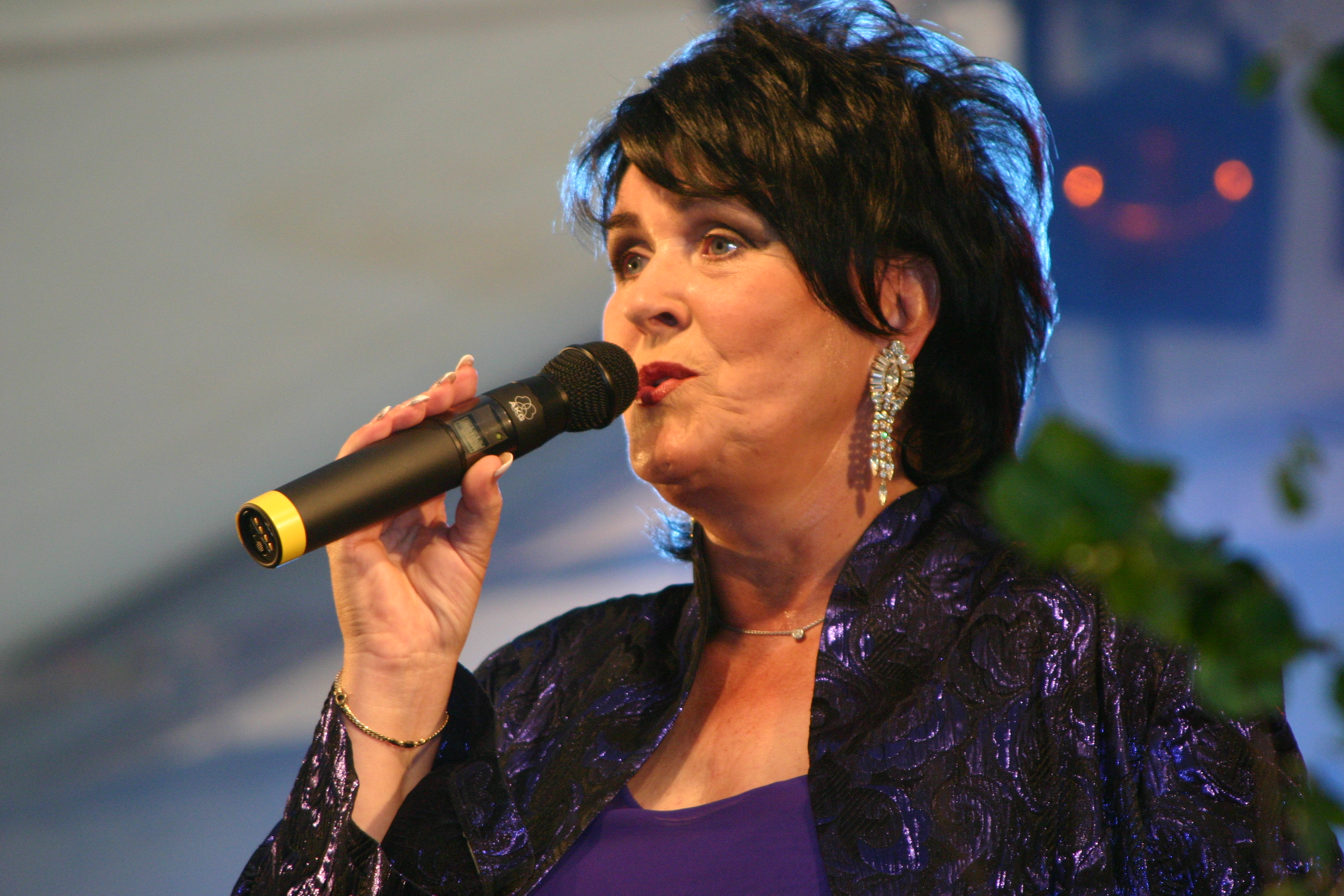 Lea Laven in Vihreät Niityt music festival in the summer 2004.